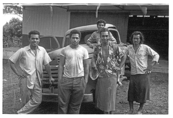 Tongan wesleysians copra workers, 1967, Niuafoʻou, Tonga.